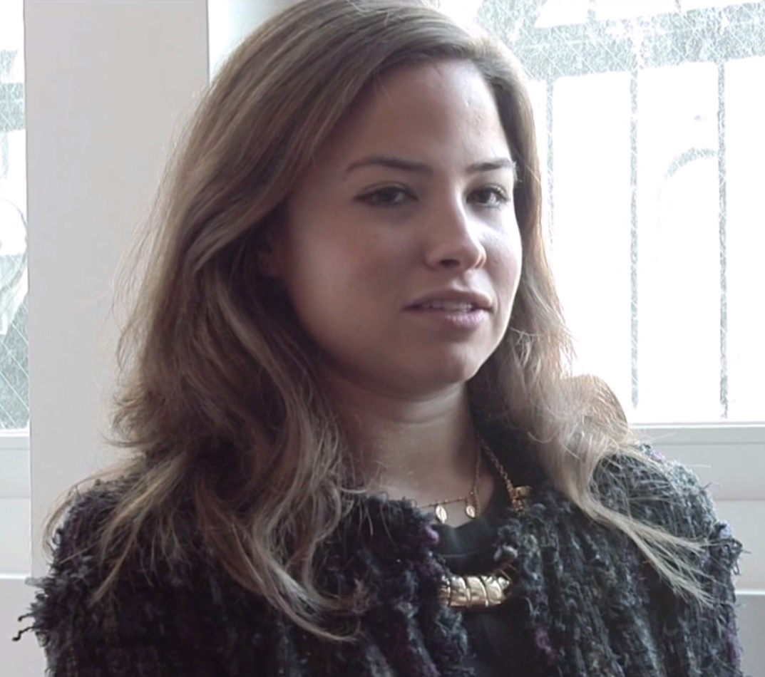 London publisher Serena Guen is the youngest magazine owner in the world. Her Suitcase magazine focuses on fashion and travel. Interviewed for episode 10 of The Creative Influence, directed by Mario De Armas @mariodearmas1 and produced by Sandbox Studio